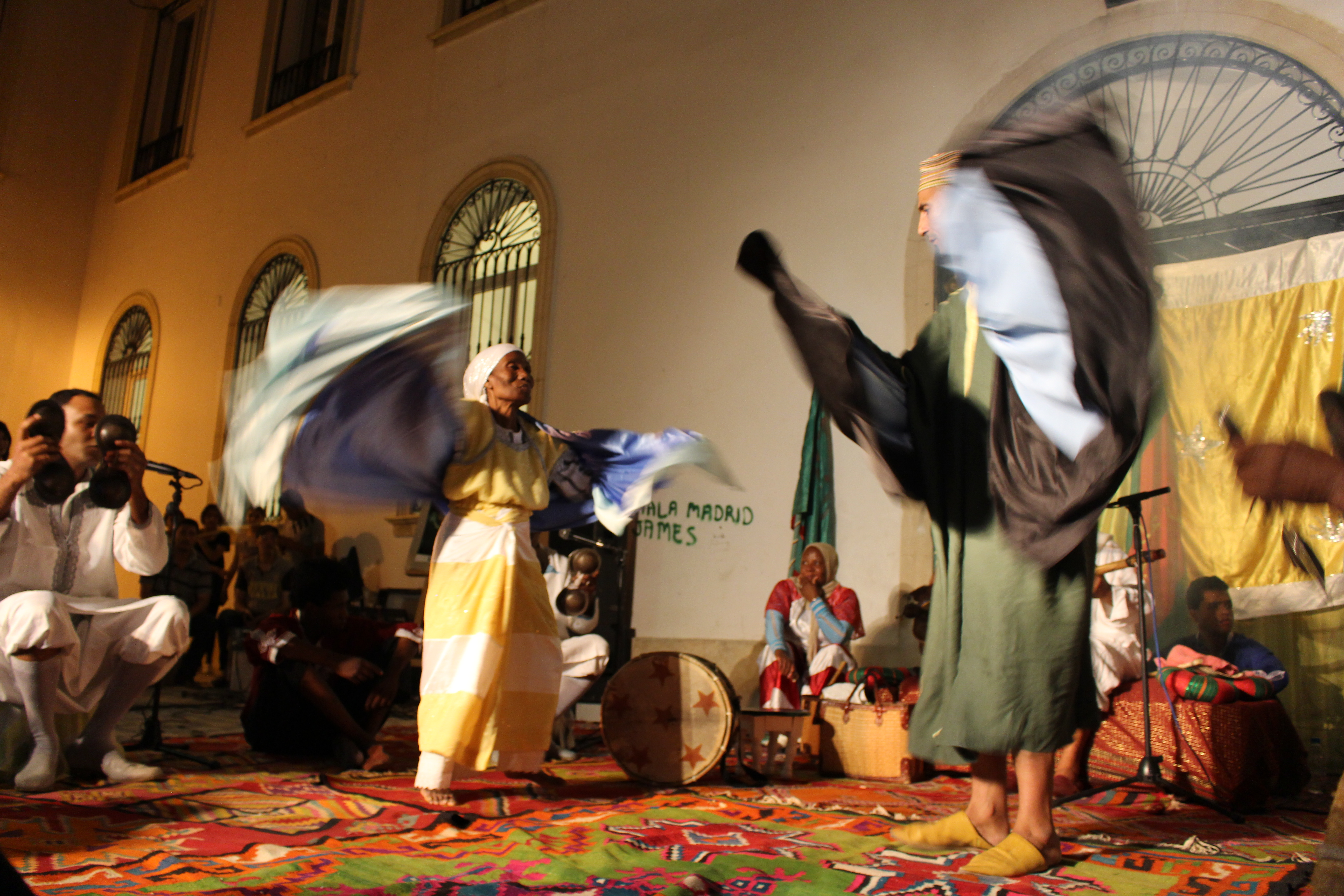 This is an image of music and dance from Tunisia